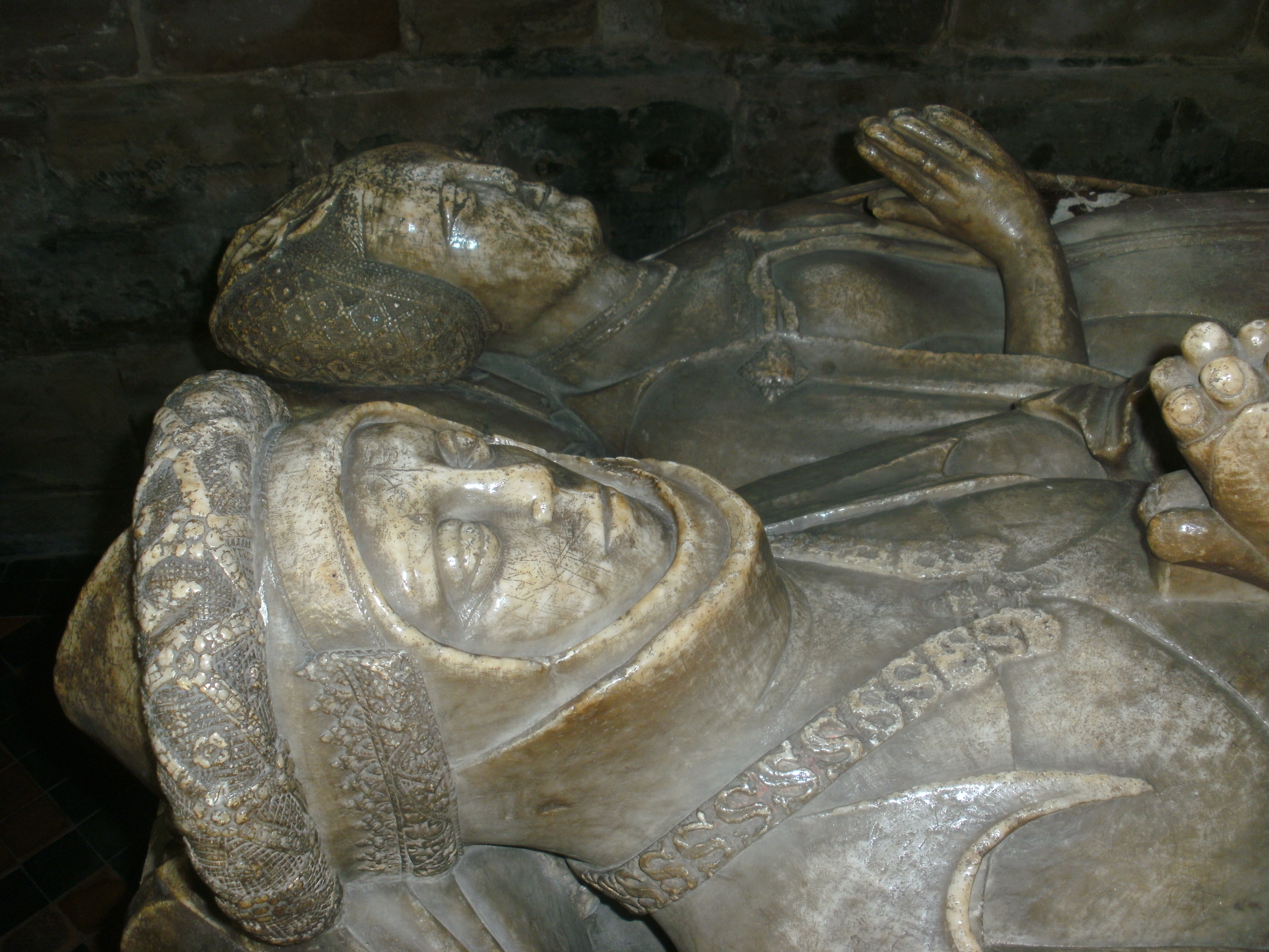 Effigies of Sir Humphrey Stafford, Knight, of Grafton (died 1450 or 1467) and his wife Eleanor (née Aylesbury) on their tomb in the Chantry Chapel of St John the Baptist Church, Bromsgrove, Worcestershire. He was the son of Sir Humphrey Stafford, Knight, of Grafton (died 20 February 1419/20) and Elizabeth (née Burdett, died 1434). Sir Humphrey's wife Eleanor Anne Aylesbury was a daughter of Thomas Aylesbury and Catherine Pakenham. She donated the Stafford Chantry Chapel of St John the Baptist Church, Bromsgrove in 1478 and died in 1482.